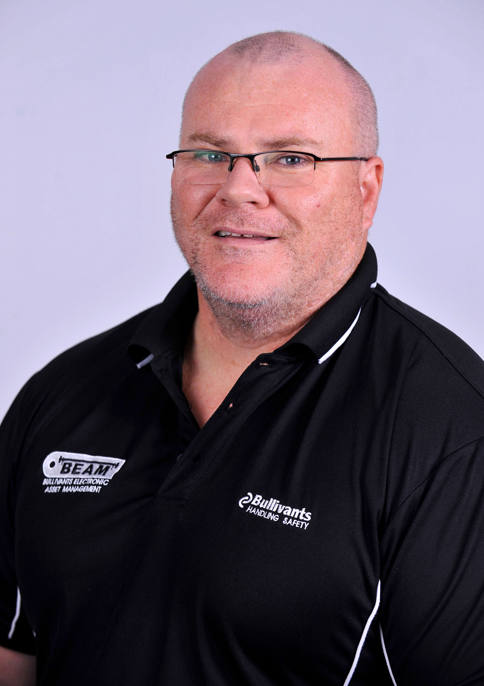 Portrait of Australian powerlifter Darren Gardiner, 2012 Australian Paralympic (shadow) Team athlete